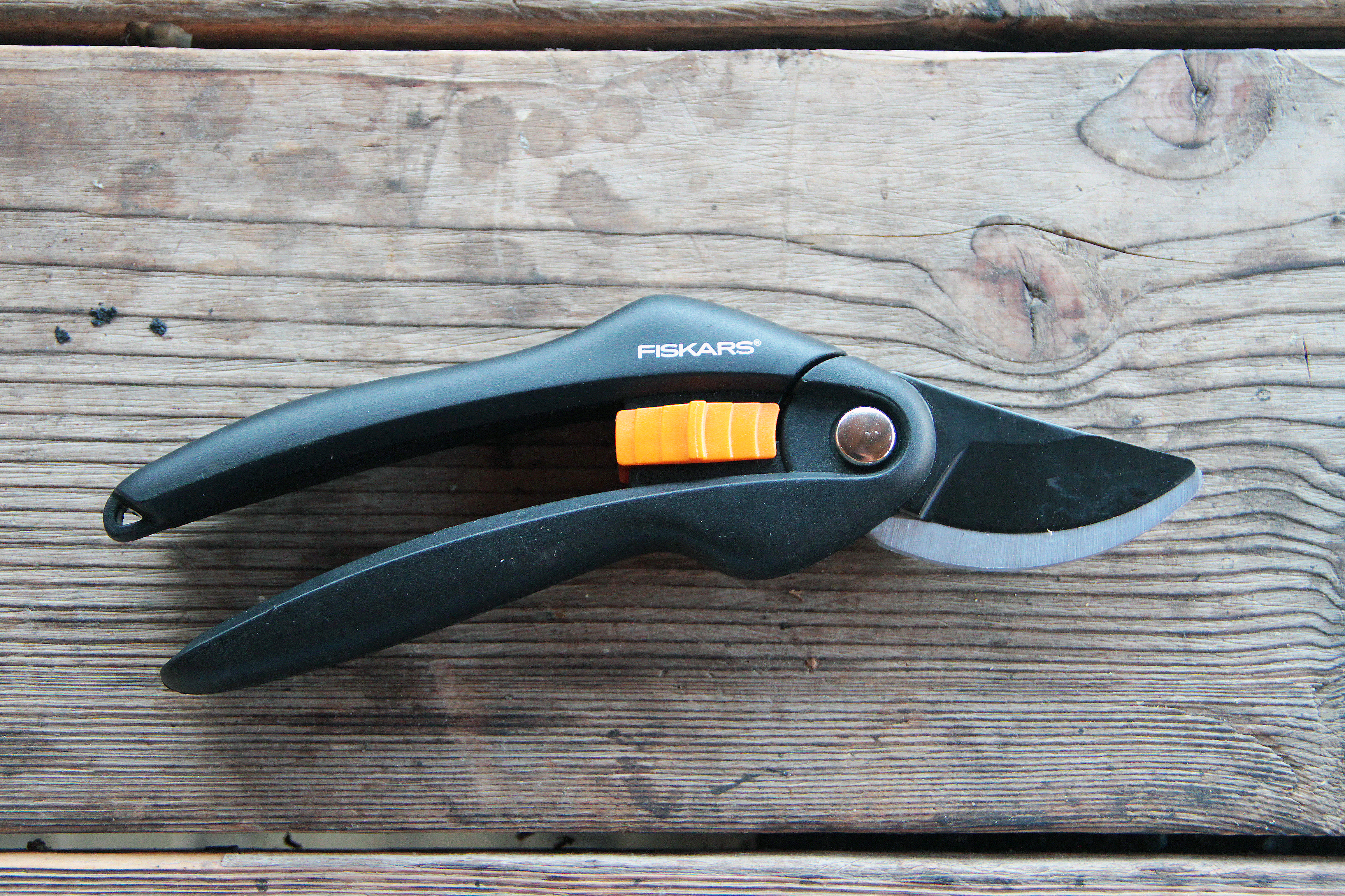 Fiskars SingleStep™ Bypass P26 pruner. Reddot Award 2011.